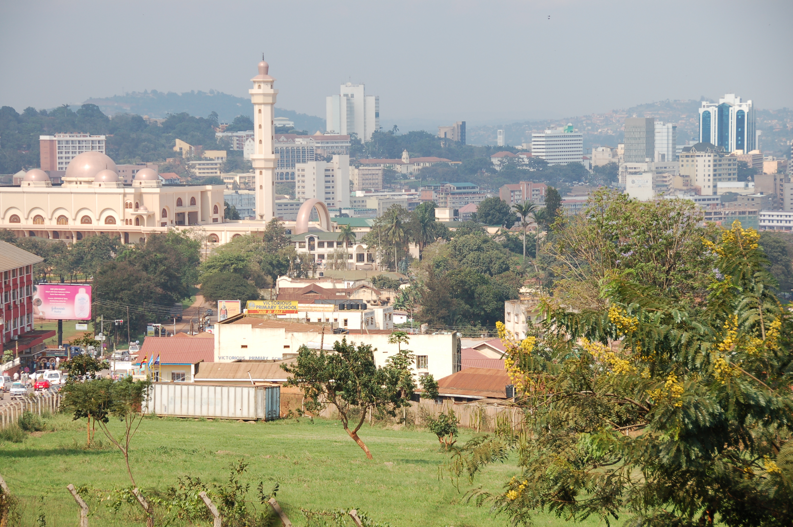 The view of Kampala - the capital of Uganda - from the Sanyu Babies Home. The city is safe, friendly and busy...also has great food!